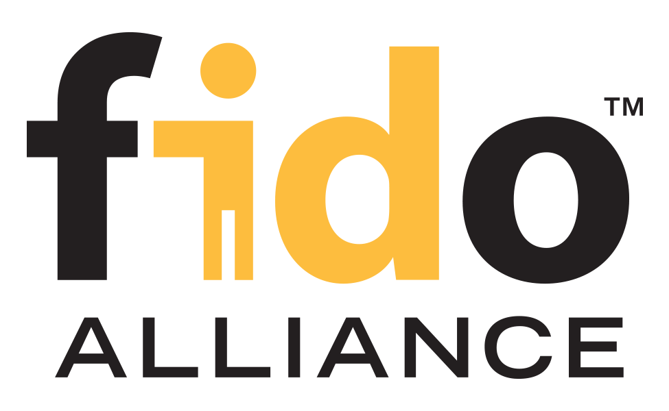 Logo of FIDO Alliance